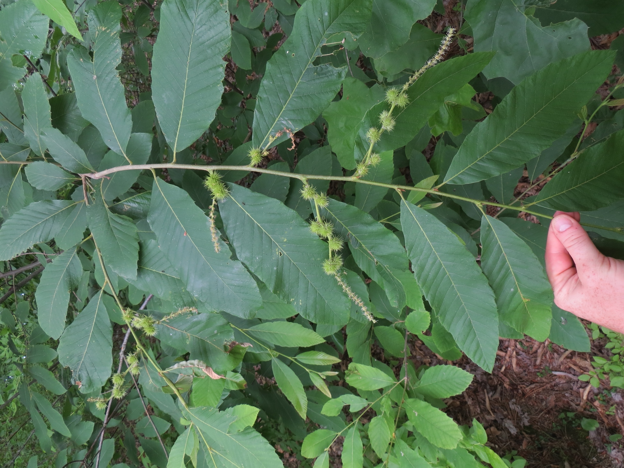 Leaves and immature nuts of Castanea pumila, taken in Summit County, Ohio, USA.